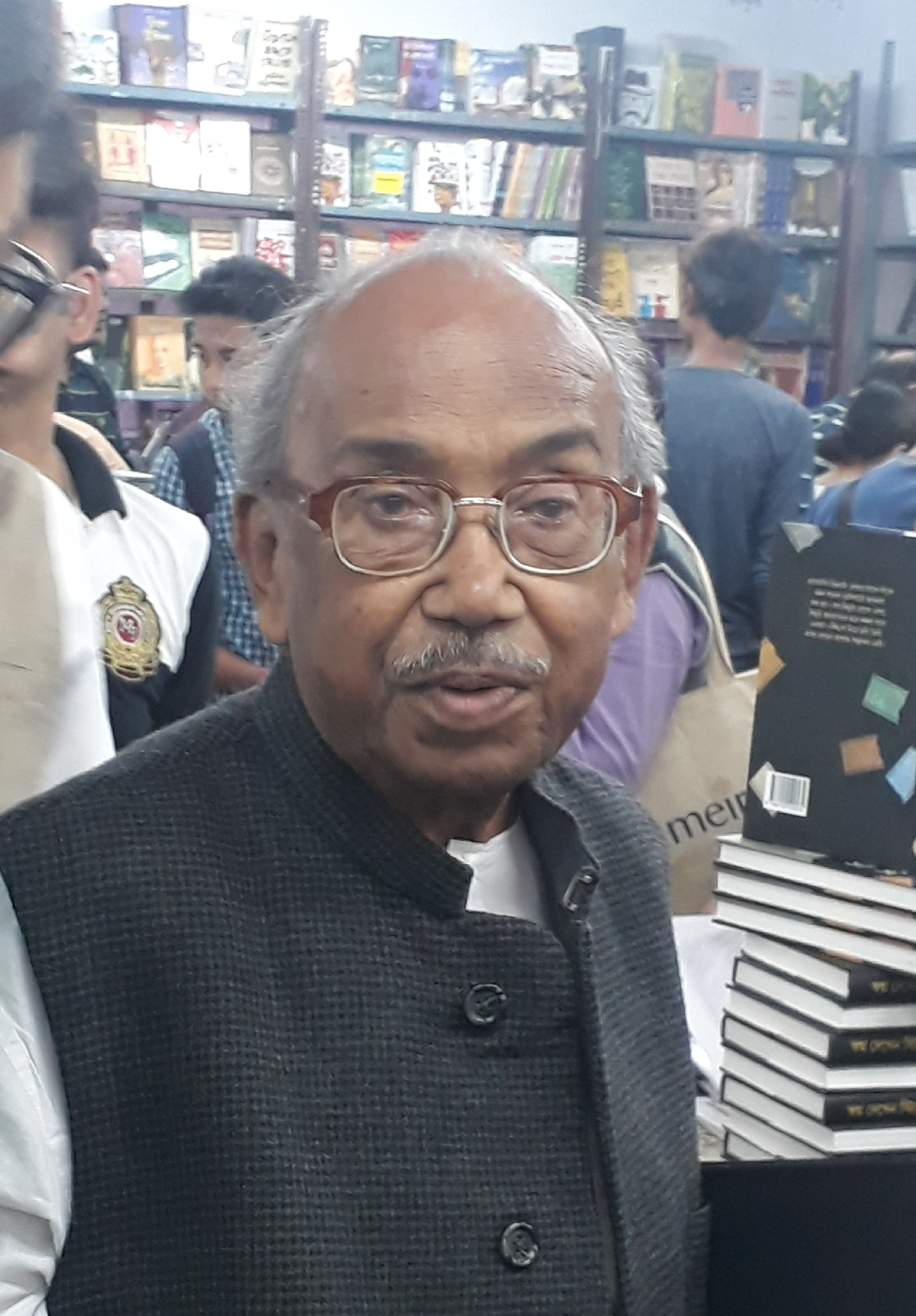 Bengali film director Tarun Majumder in Kolkata Book Fair, 2018